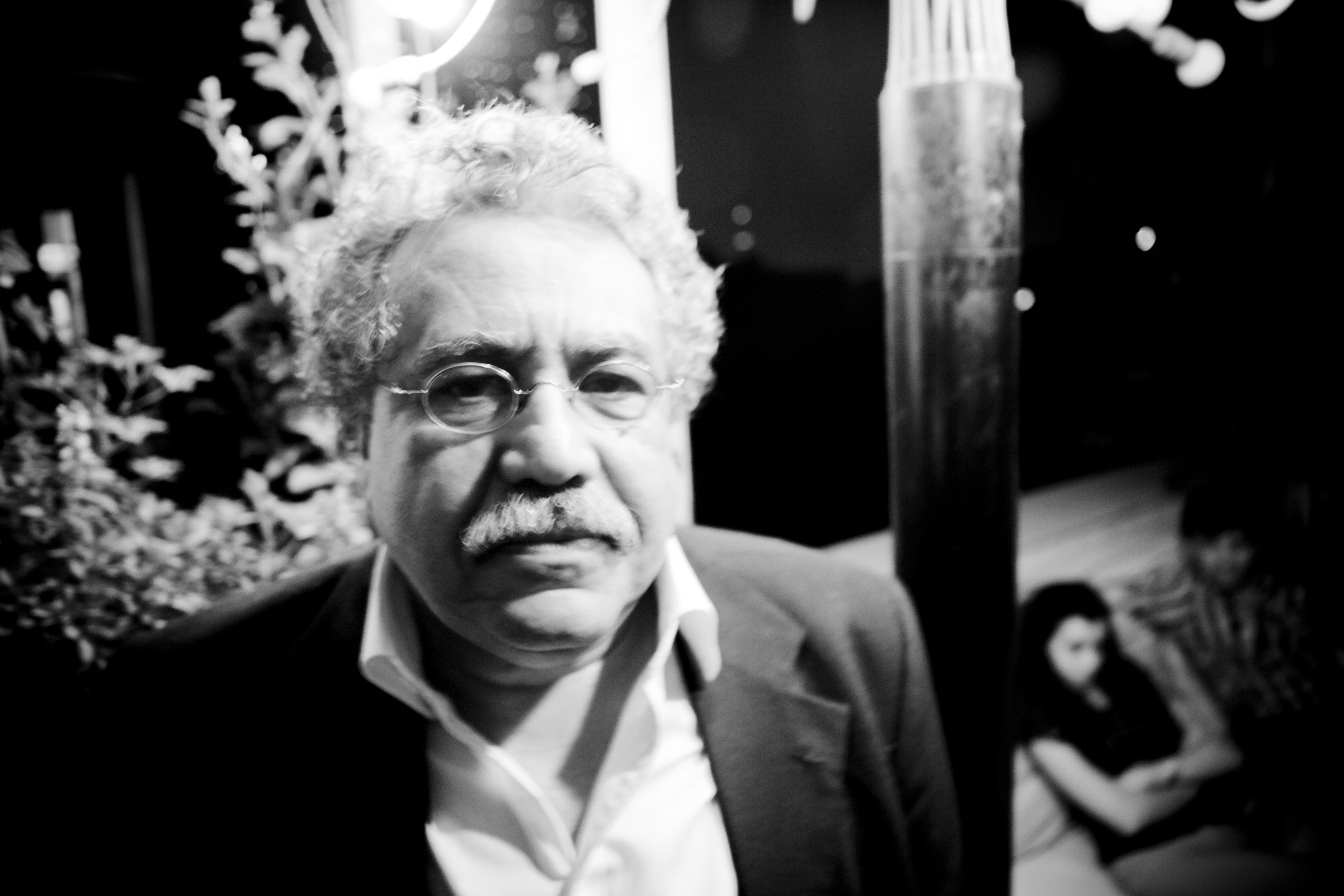 Hani Shukrallah, Egyptian Marxist, columnist. Photo by Hossam el-Hamalawy on 12th of June 2010